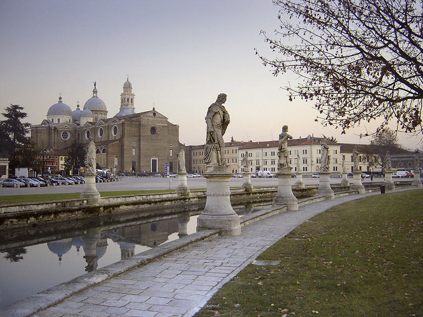 Basilica of Santa Giustina, seen from the Prato della Valle, Pádua.